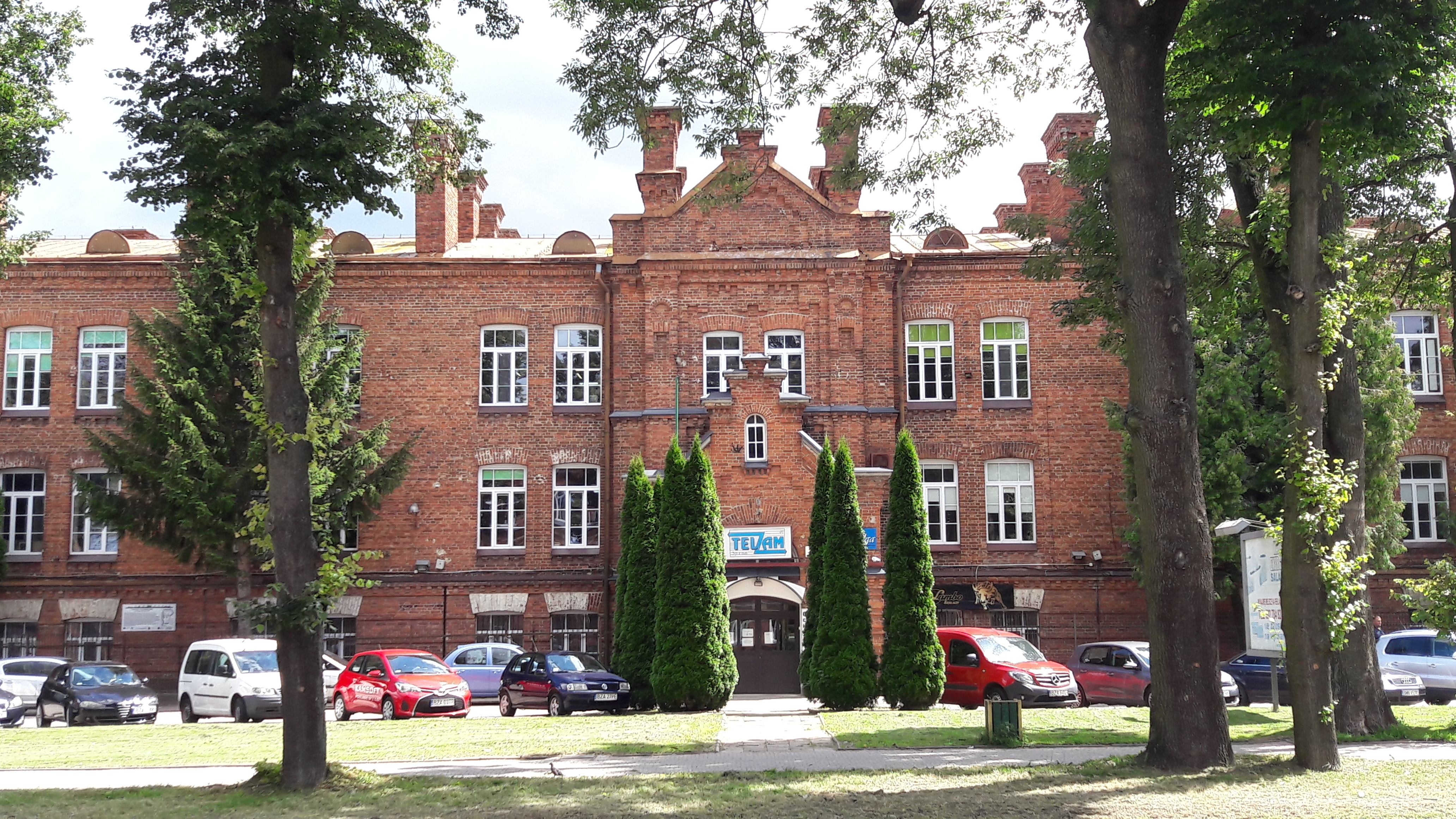 Zespół koszar carskich